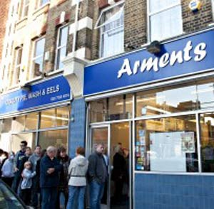 Arments Pie and Mash Shop, Walworth, London